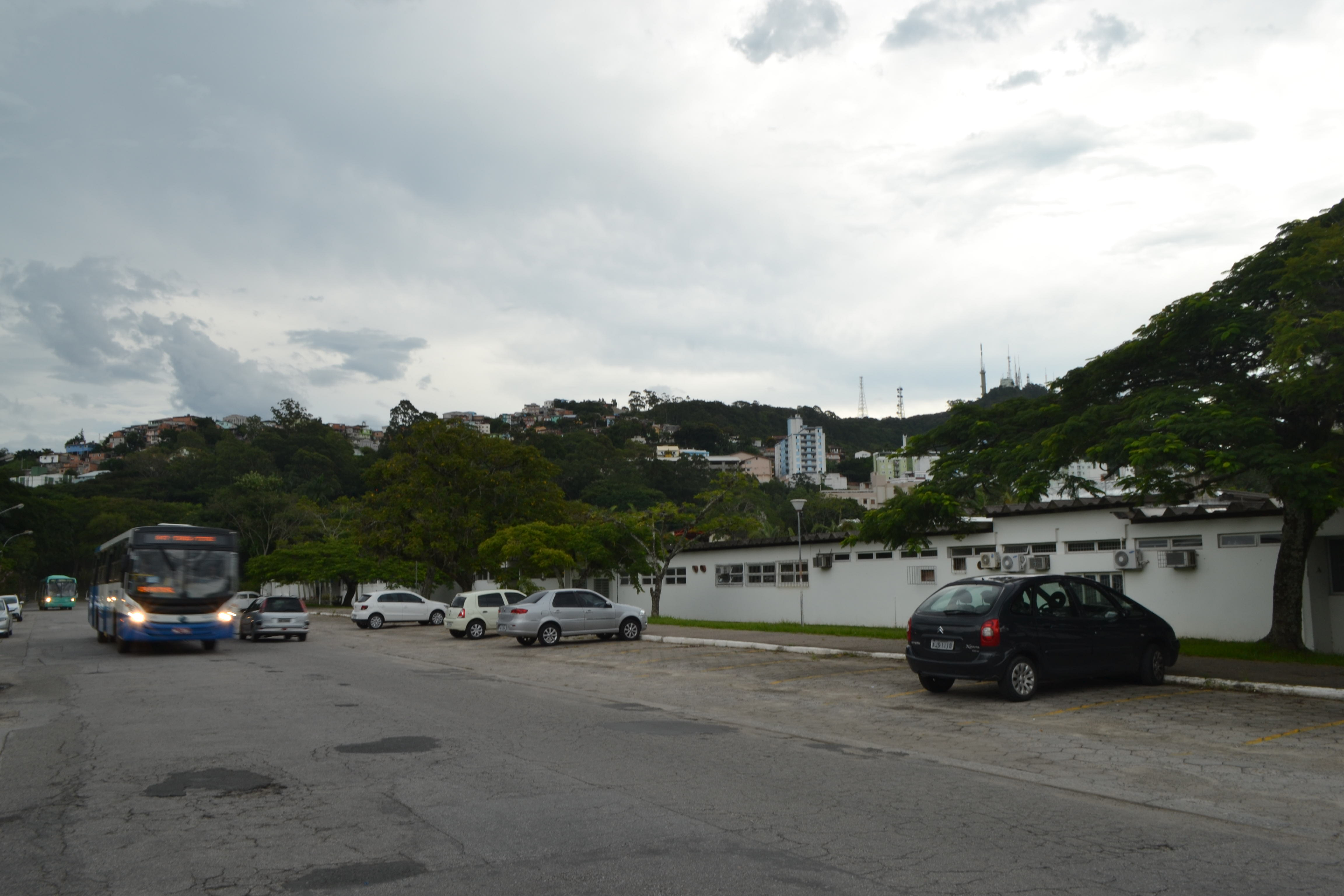 I, Janko Hoener, created this photograph. If you intend to use it, please credit me with the following attribution line: Janko Hoener / CC-BY-SA-4.0. A link back to this page and informing me about your usage is appreciated.